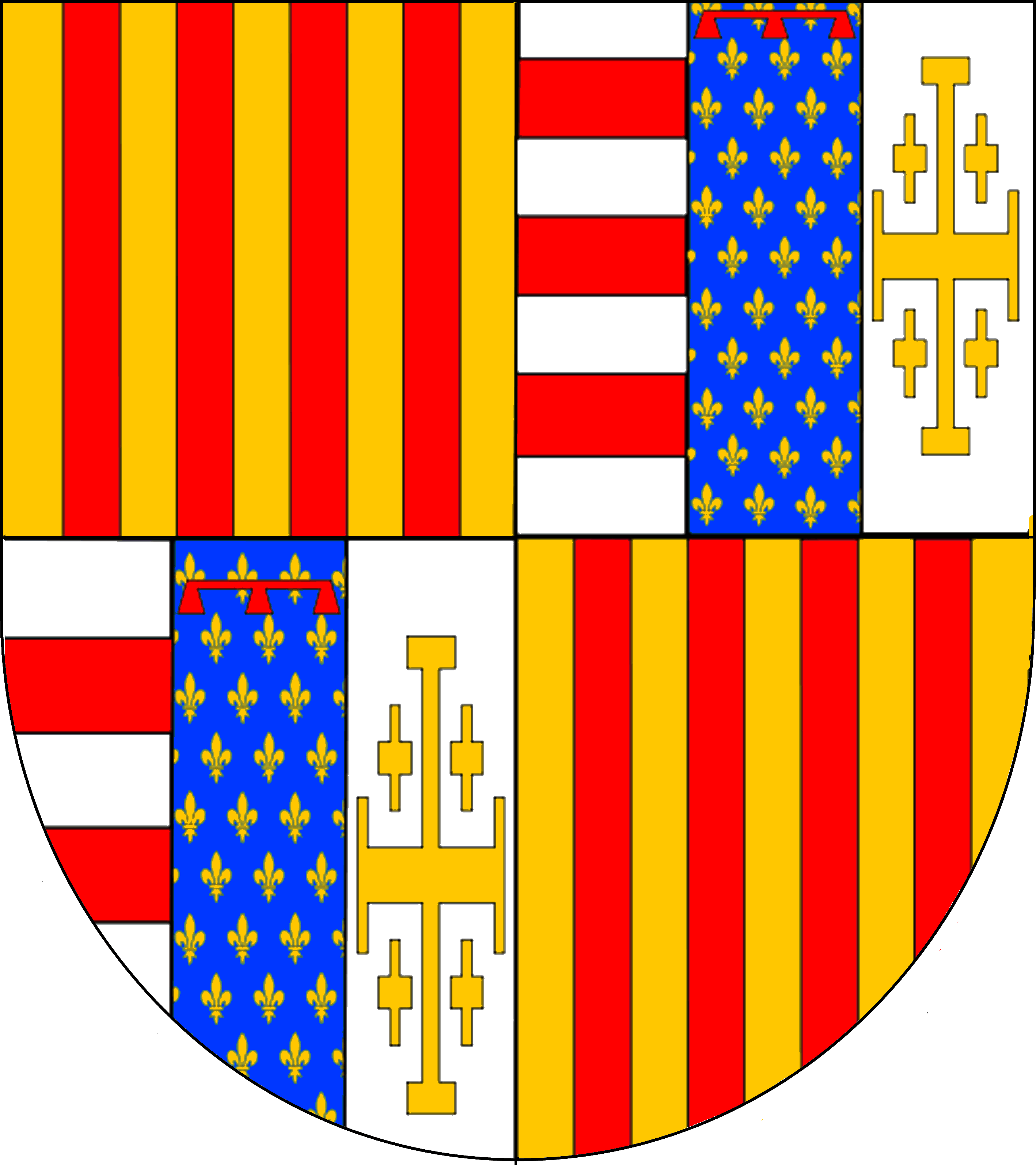 Escudo de armas de los duques de Montalto